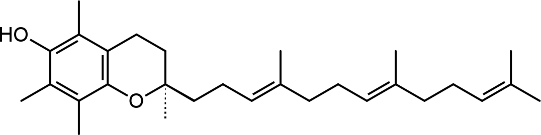 My BKchem rendition of the alpha-tocotrienol molecule.